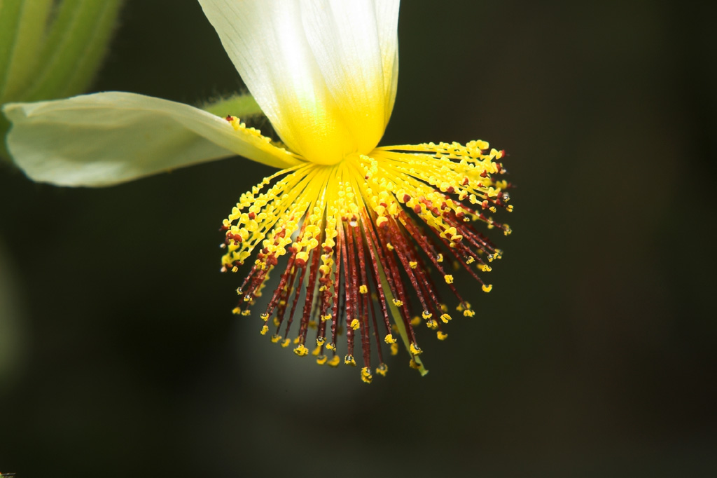 Florescence with Stamina from Sparrmannia africana.